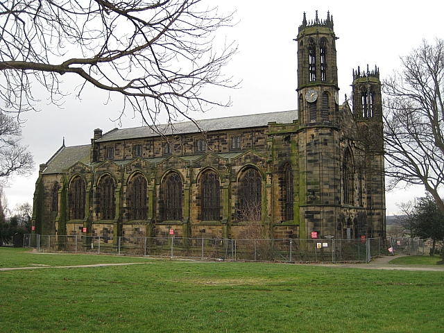 Stanley St Peters Church No buyer has yet been found for this grade II listed building, which has been disused since 2001. The church is fenced off and the signs read “Keep Clear, Dangerous Structure, Keep Out”. Meanwhile the decay goes on.